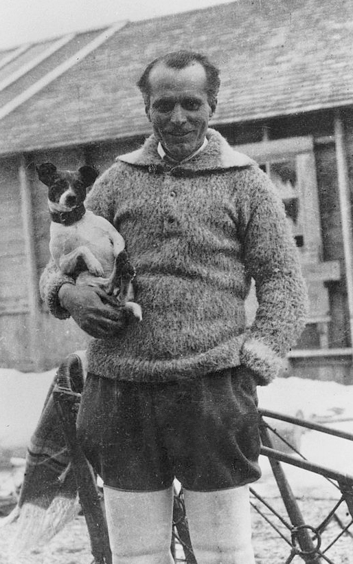 Italian colonel and explorer Umberto Nobile smiling holding a puppy. Arctic, 1926.